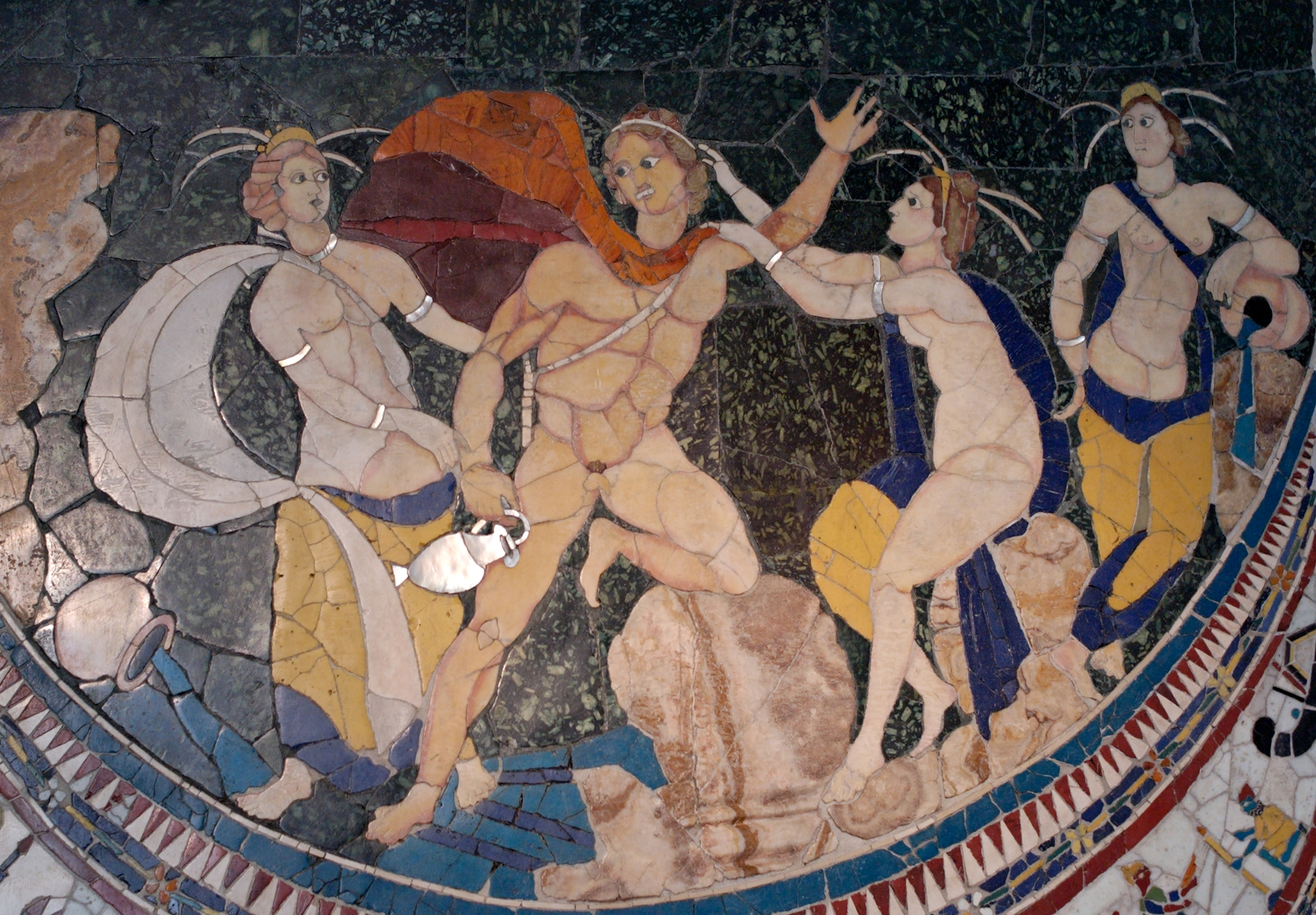 Opus sectile panel with the rape of Hylas by the Nymphs. Roman artwork, first half of the 4th century. From the basilica of Junius Bassus on the Esquiline Hill.